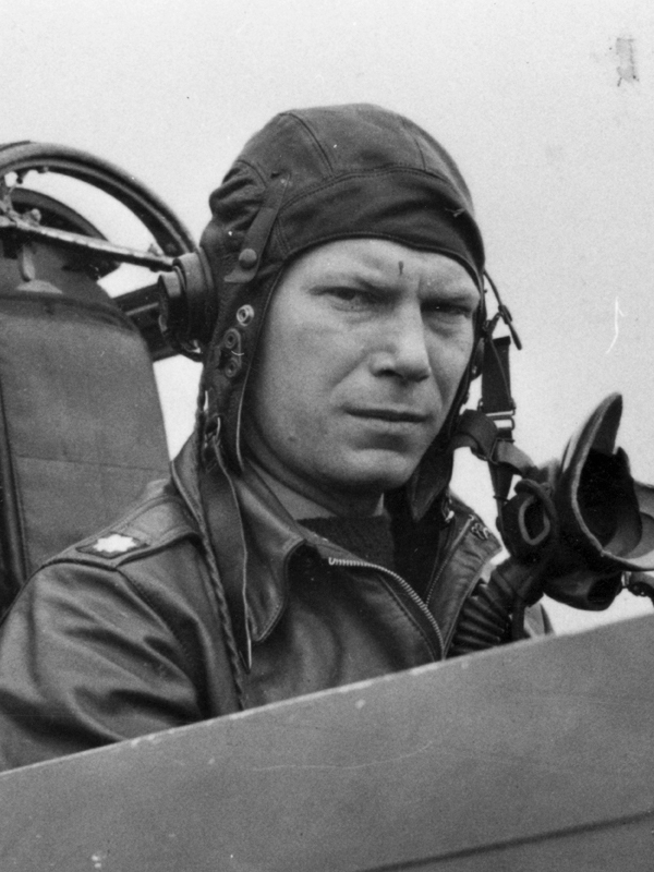 Lieutenant-Colonel Joseph L. Mason of the 328th Fighter Squadron, 352nd Fighter Group. The aircraft is P-47D-5 serial number 42-8466 nicknamed "Gena This Is It".